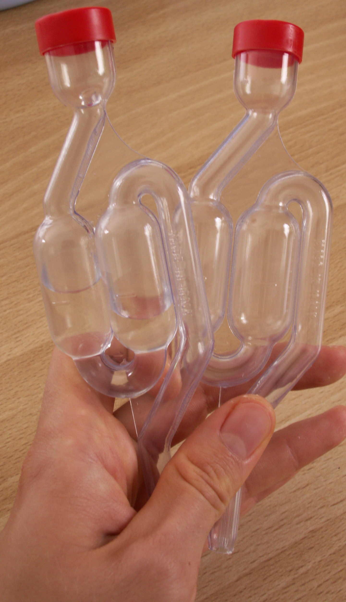 A picture of a fermentation lock